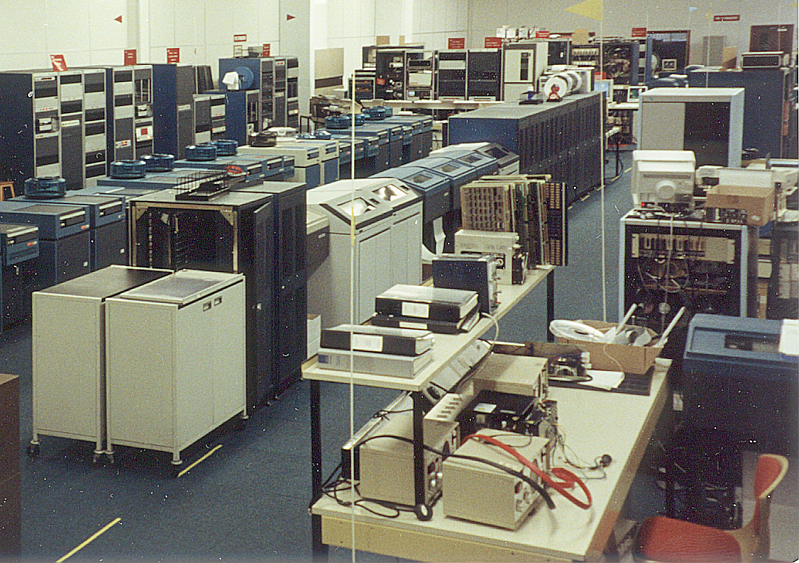 GEC 4000 series minicomputers, GEC Computers Dunstable Development Centre Computer Room, 1991